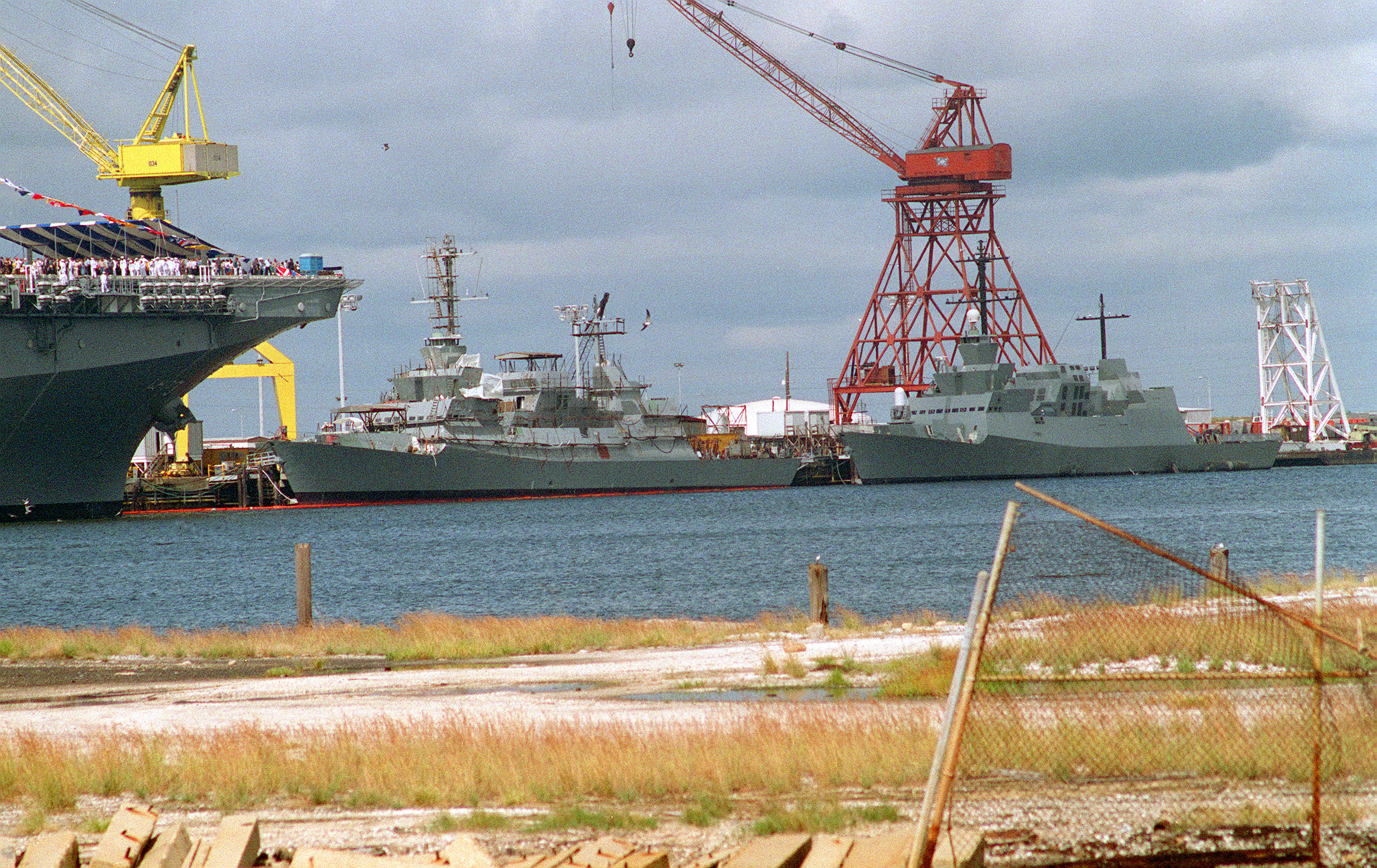 A port bow view of the ISRAELI Saar 5 guided missile corvettes: INS Eilat (FFG-501) and INS LAHAV (FFG-502) under construction at the Ingalls Shipbuilding shipyard. Location: PASCAGOULA, MISSISSIPPI (MS) UNITED STATES OF AMERICA (USA)